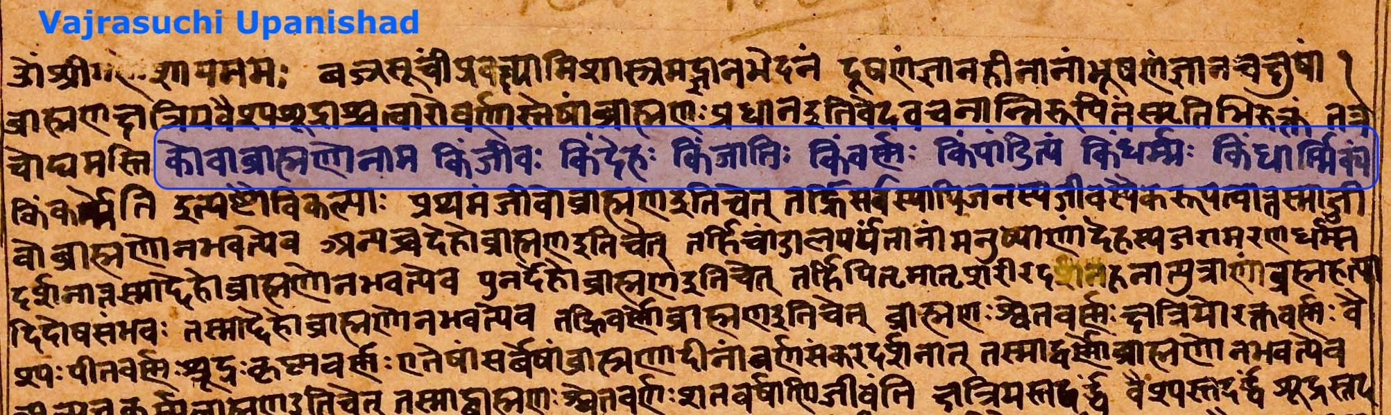 The minor Upanishads (Upanisad, Upanisat) are Hindu texts. Variously dated by scholars to have been composed between 0 CE to about 1500 CE, the minor Upanisads are in Sanskrit language and traditionally appended to the Vedas. They contain a mixture of philosophy and mystical speculations, many set in the form of dialogues or pedagogic style. The above image is from the 1st millennium Vajrasuchi Upanishad, a manuscript copied and published in 1728 CE in the Deccan region. It is notable for being a sustained philosophical attack against the caste system, and in general social discrimination of any form, and for asserting that any human being can achieve the highest spiritual state of existence regardless of birth. It is attributed to Adi Shankara (~800 CE) in the Hindu tradition, but this attribution has been questioned. The highlighted section means, "What is meant by Brahmin? Is it his individual soul? Is it his body? Is it based on his birth? Is it his knowledge? Is it his deeds? Is it his rites?" These manuscripts are preserved at the Lalchand Research Library, Ancient Indian Manuscript Collection, DAV College Digital Library Initiative, Chandigarh India, in association with SP Lohia and Indorama Charitable Trust. The texts are over 2000 years old, the re-copying into this particular manuscript is dated to a 1728 CE reproduction. The manuscript shows decay and damage on the sides and its edges. Language: Sanskrit Script: Devanagari Script style: pre-14th century (Northern / Western) The photo above is of a 2D artwork of a text that is over 1,000 years old, from a manuscript that was produced long before 1923. Therefore Wikimedia Commons PD-Art licensing guidelines apply. Any rights I have as a photographer is herewith donated to wikimedia commons under CC 4.0 license.